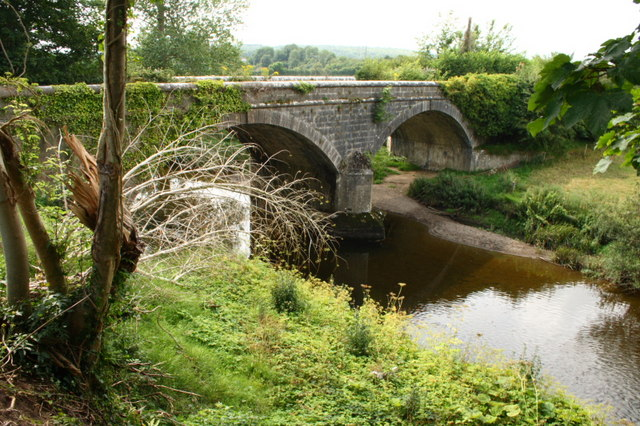 New Dinin Bridge 'New' bridge on River Dinin near Dunmore.